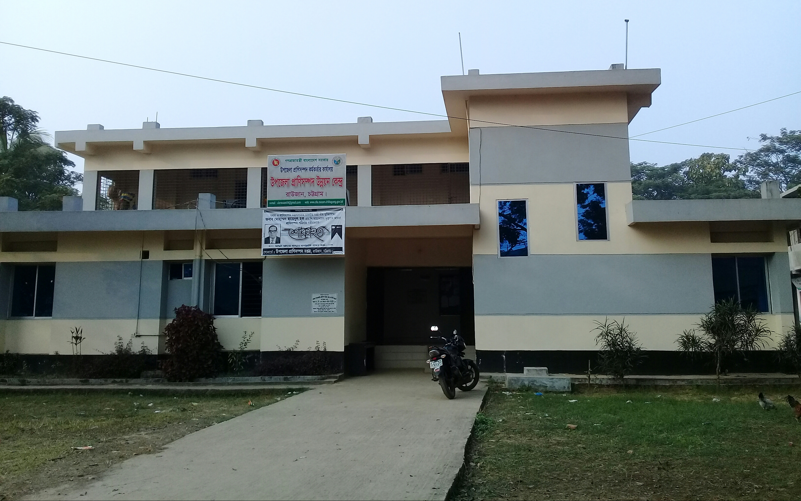 Upazila Livestock Development Center